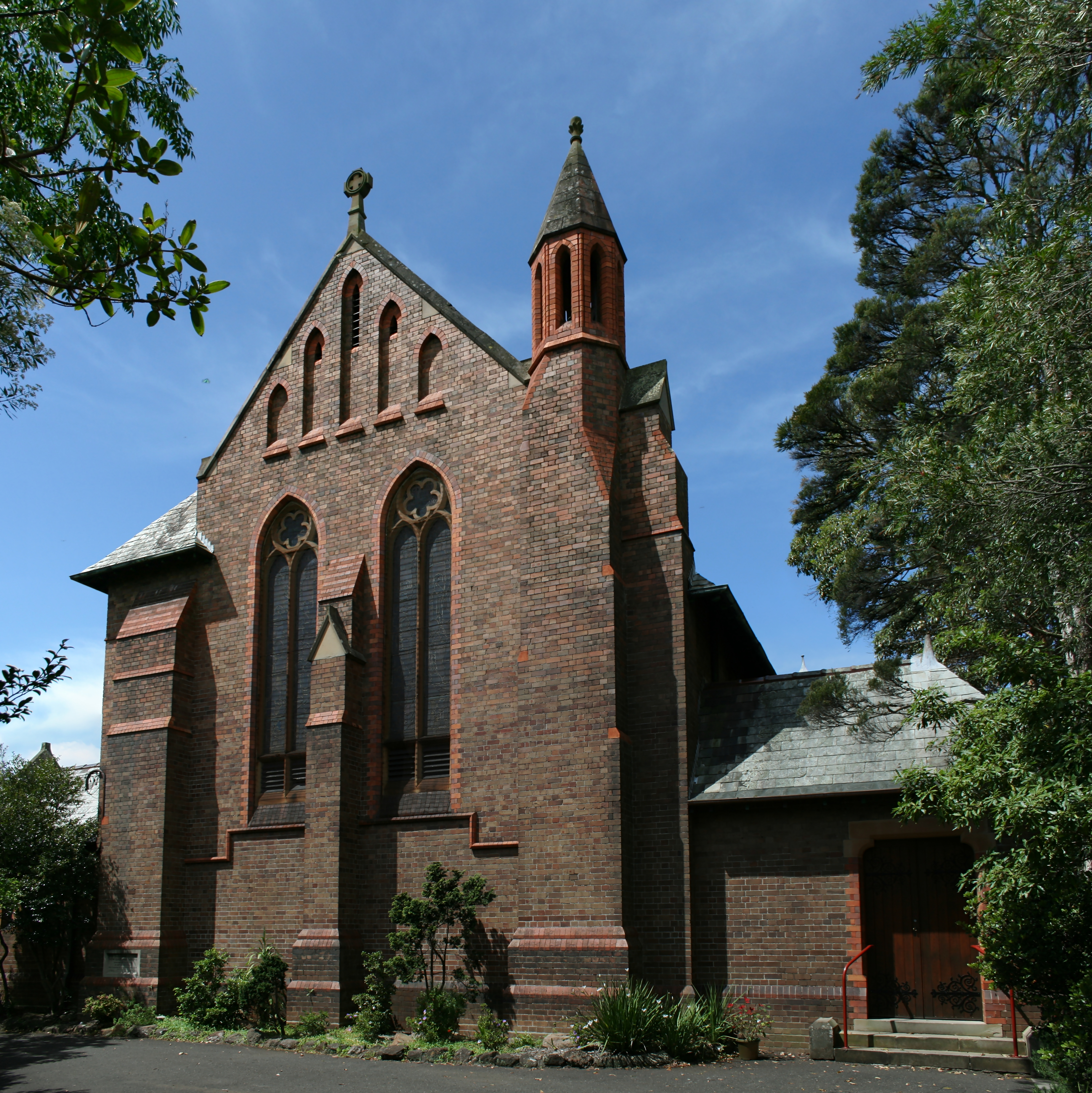 St. Anne's Anglican Church, Strathfield, New South Wales (NSW), Australia. End view.